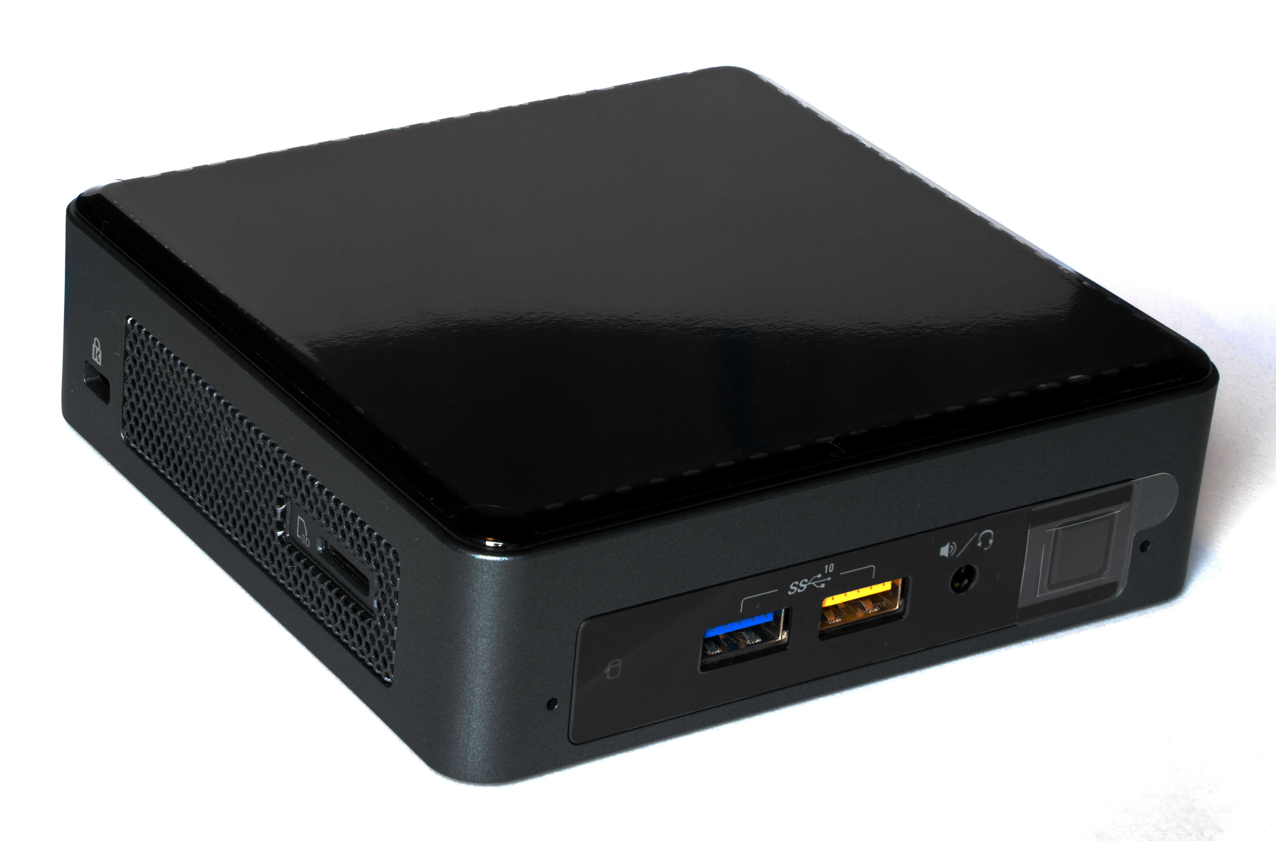 Intel NUC of 8th gen. Model: NUC8i5BEK2